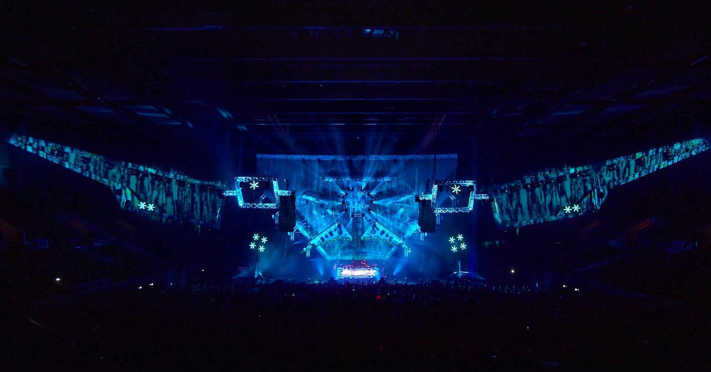 This photo was taken during the 2019 edition